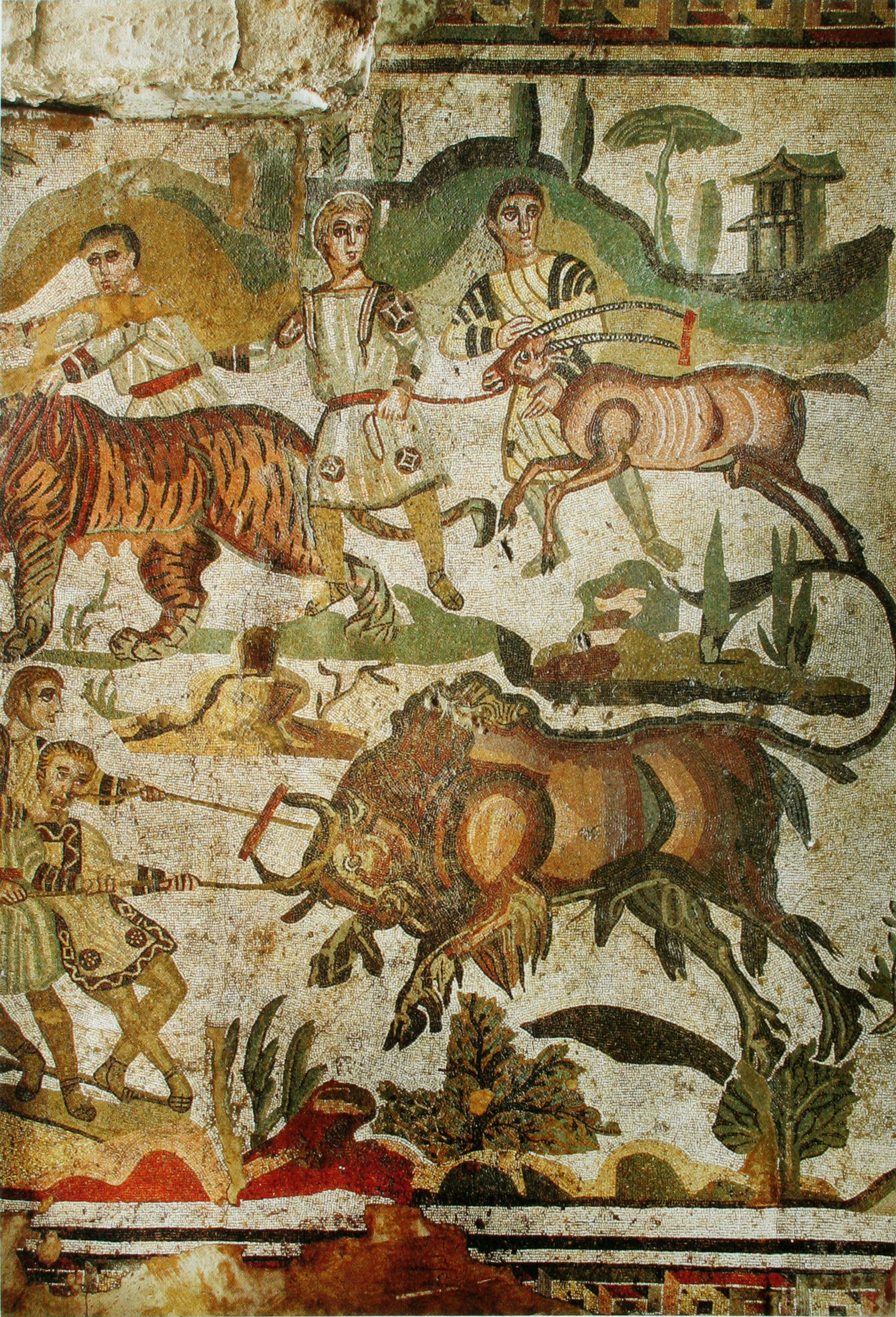 Great Hunt mosaic, Villa del Casale, Piazza Armerina, Sicily, Italy.